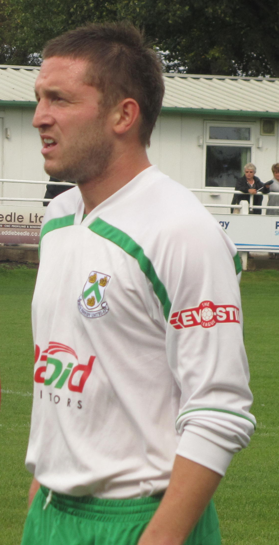 Russell Fry